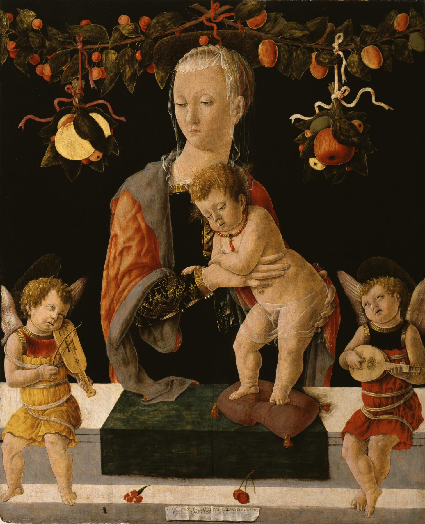 In this altarpiece, the Virgin Mary wears gold brocade with pearls, and the Christ Child, with his necklace of red coral, stands on a tasseled cushion. Through these precious materials, the painter has communicated the divinity of the figures. On the parapet at the bottom of the painting is a carnation. Its Greek name, dianthus, means "flower of God." Schiavone was born in Dalmatia (present-day Croatia) and immigrated to northern Italy, where he studied with Francesco Squarcione of Padua. On the cartellino (little paper) in the foreground, he proudly identifies himself as the disciple of this master. Like his contemporaries, Schiavone was concerned with reviving the arts of antiquity, as seen by the garlands at the top that imitate Roman sarcophagus reliefs.